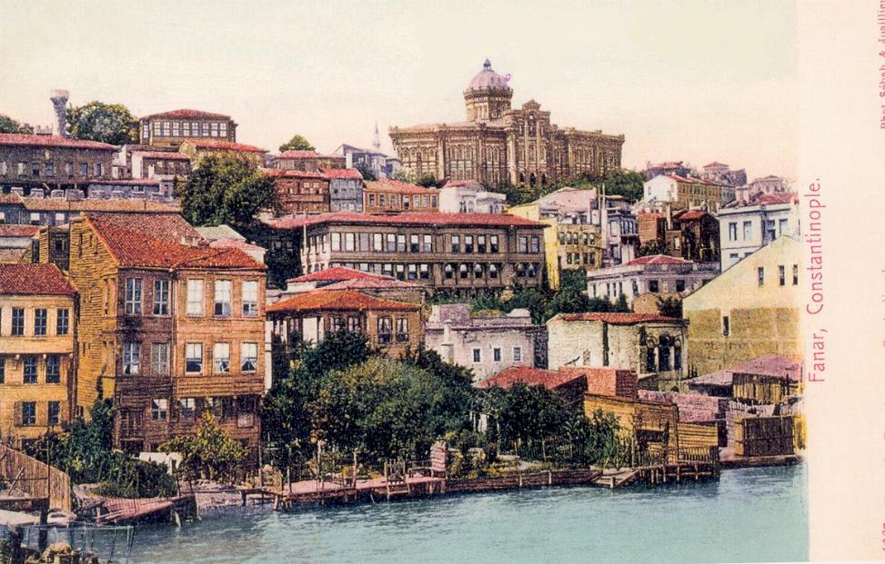 Fanarion, Greek district in Constantinople (Istanbul).